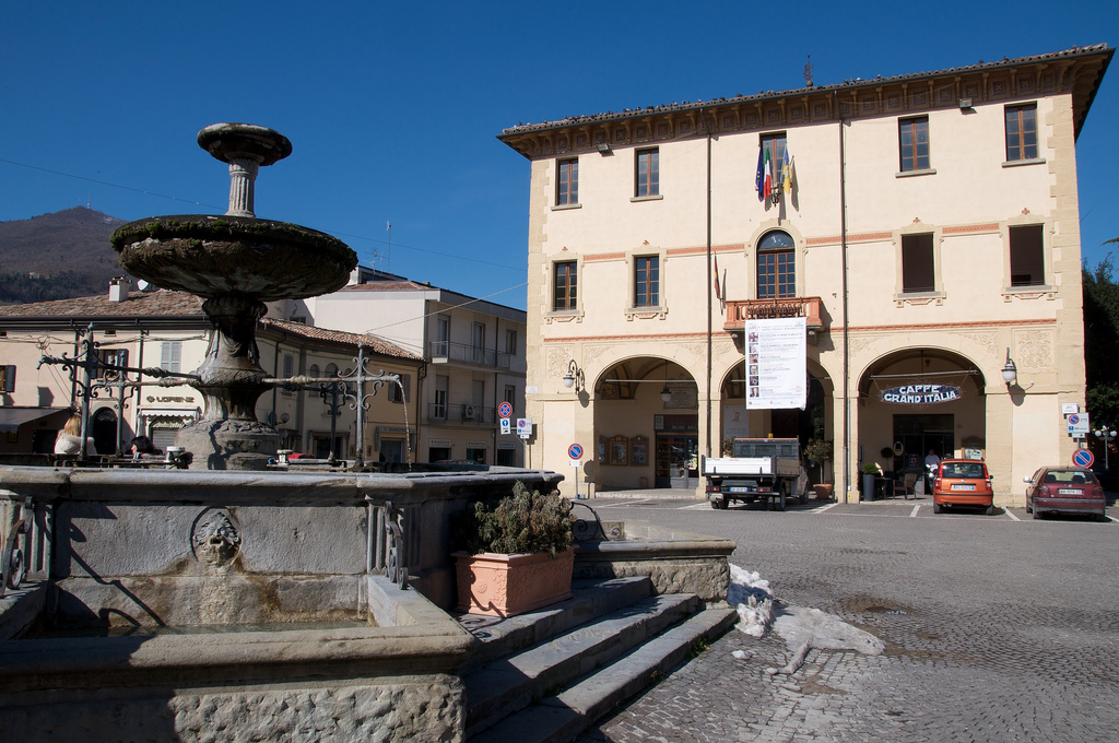 Novafeltria Town Hall